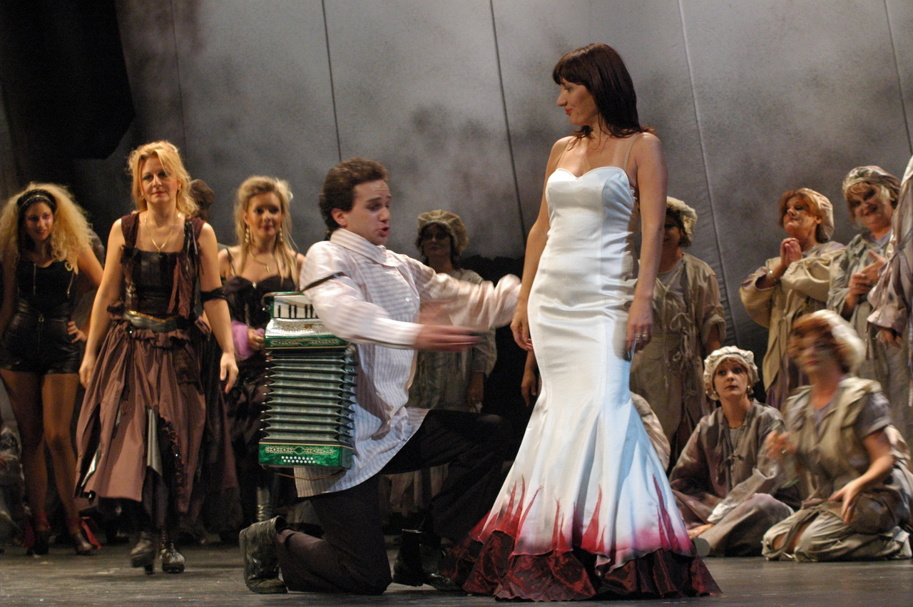 "Katerina Izmailova", an opera by Dmitri Shostakovich; Goran Krneta (bass), Valentina Milenković (soprano), SNT, Novi Sad, 2006/07 Srpski (latinica): "Katarina Izmajlova", opera Dmitrija Šostakoviča; Goran Krneta (bas), Valentina Milenković (sopran), SNP, Novi Sad, 2006/07. Српски (ћирилица): "Катарина Измајлова", опера Дмитрија Шостаковича, Горан Крнета (бас), Валентина Миленковић (сопран), СНП, Нови Сад, 2006/07.